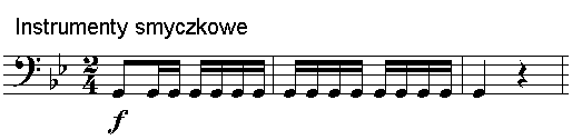 Concerto No. 2 in G minor Op. 8 "Summer" ("L'estate") RV 315